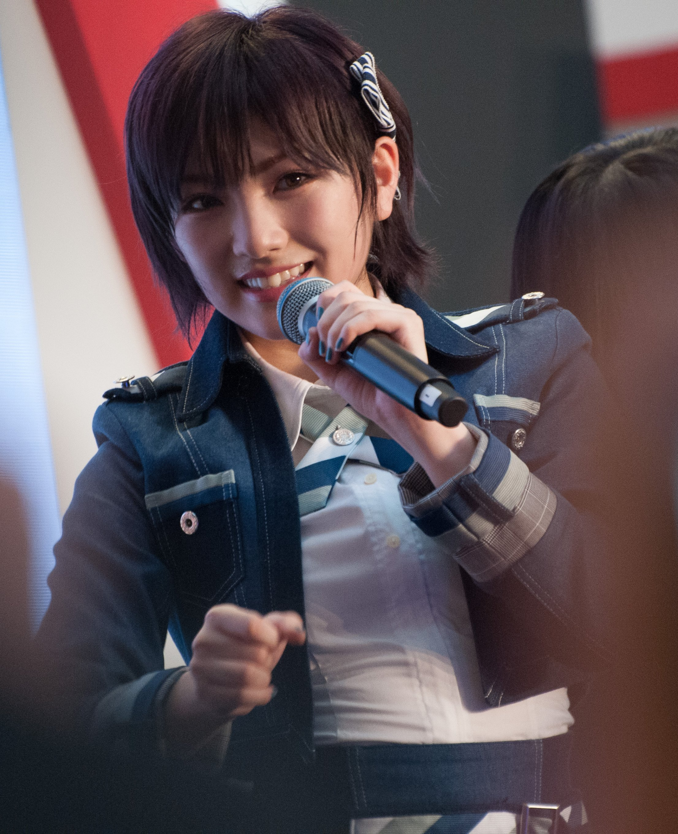 Nana Okada performing at Pavilion Kuala Lumpur during Japan Malaysia Expo 2019.